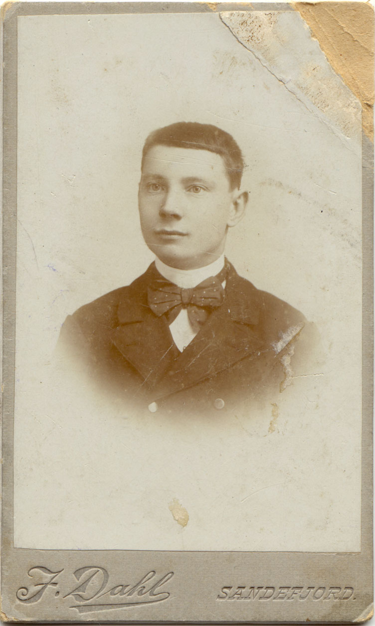 Picture of Captain Viktor Esbensen, born 1881-03-11, Vardo, Finnmark, died 1942-01-28 at sea.